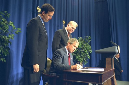 President George W. Bush signs the Born Alive Infants Protection Act of 2002 in Pittsburgh, Pa., Monday, Aug. 5.